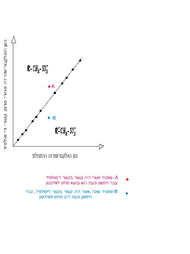 Graphics Interchange Format Image